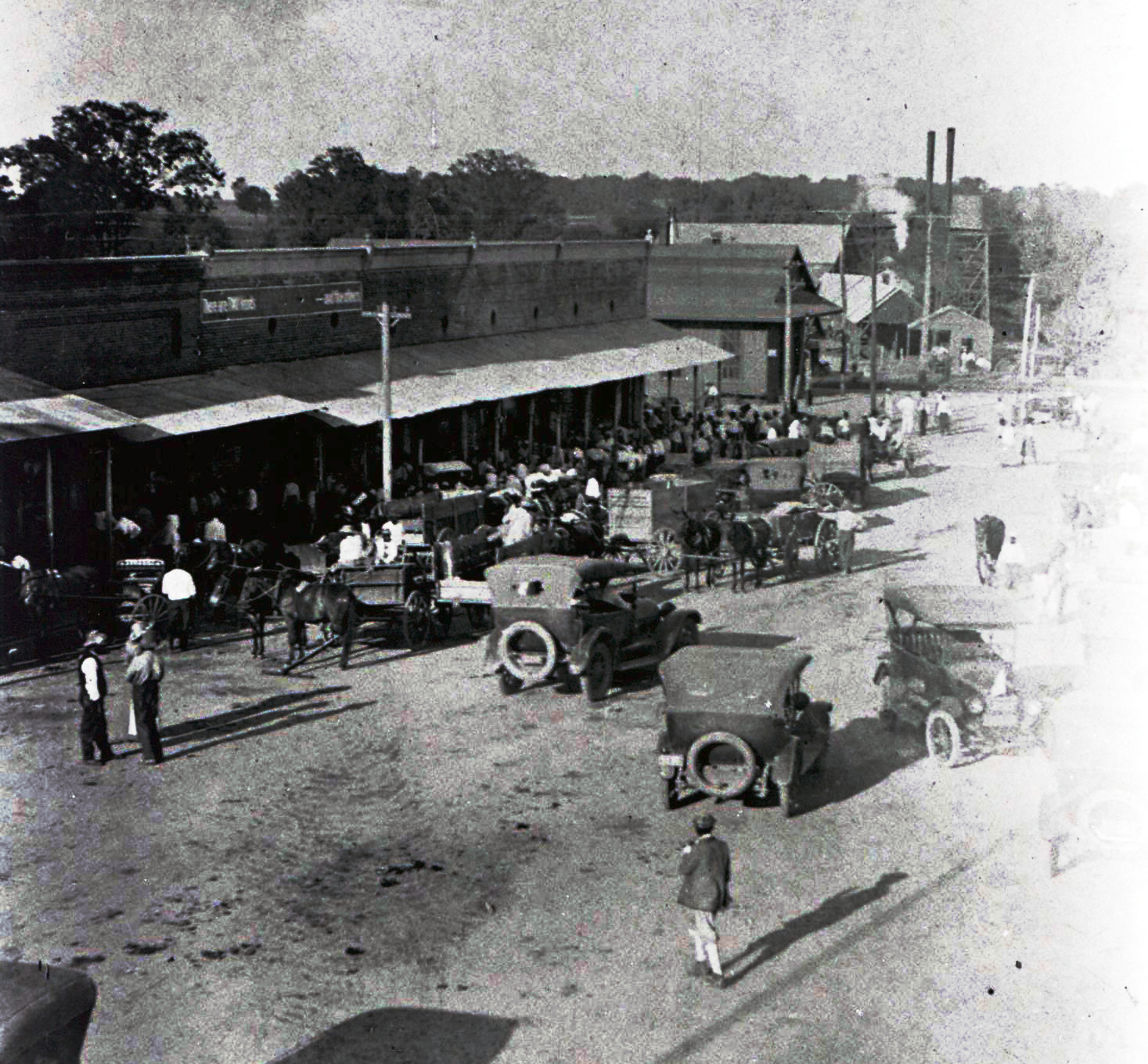 Main Street in Flora, Madison County, Mississippi, looking east, circa 1915.